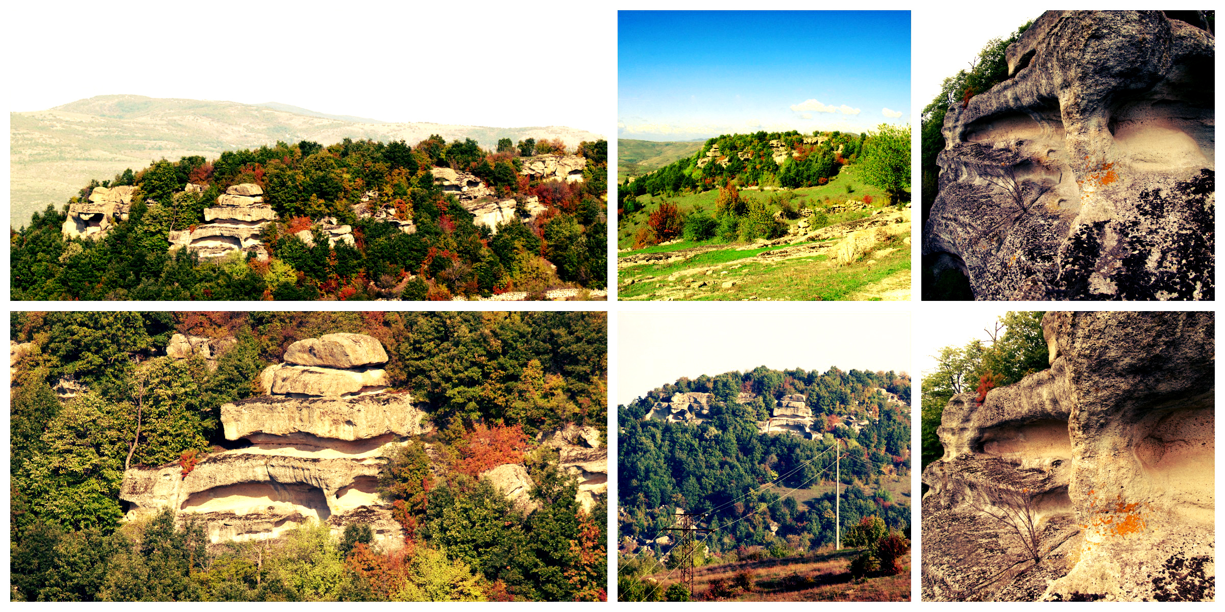 Pyramide_Kovil_East_Rhodopes_BG